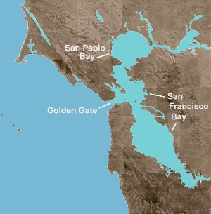 San Francisco Bay